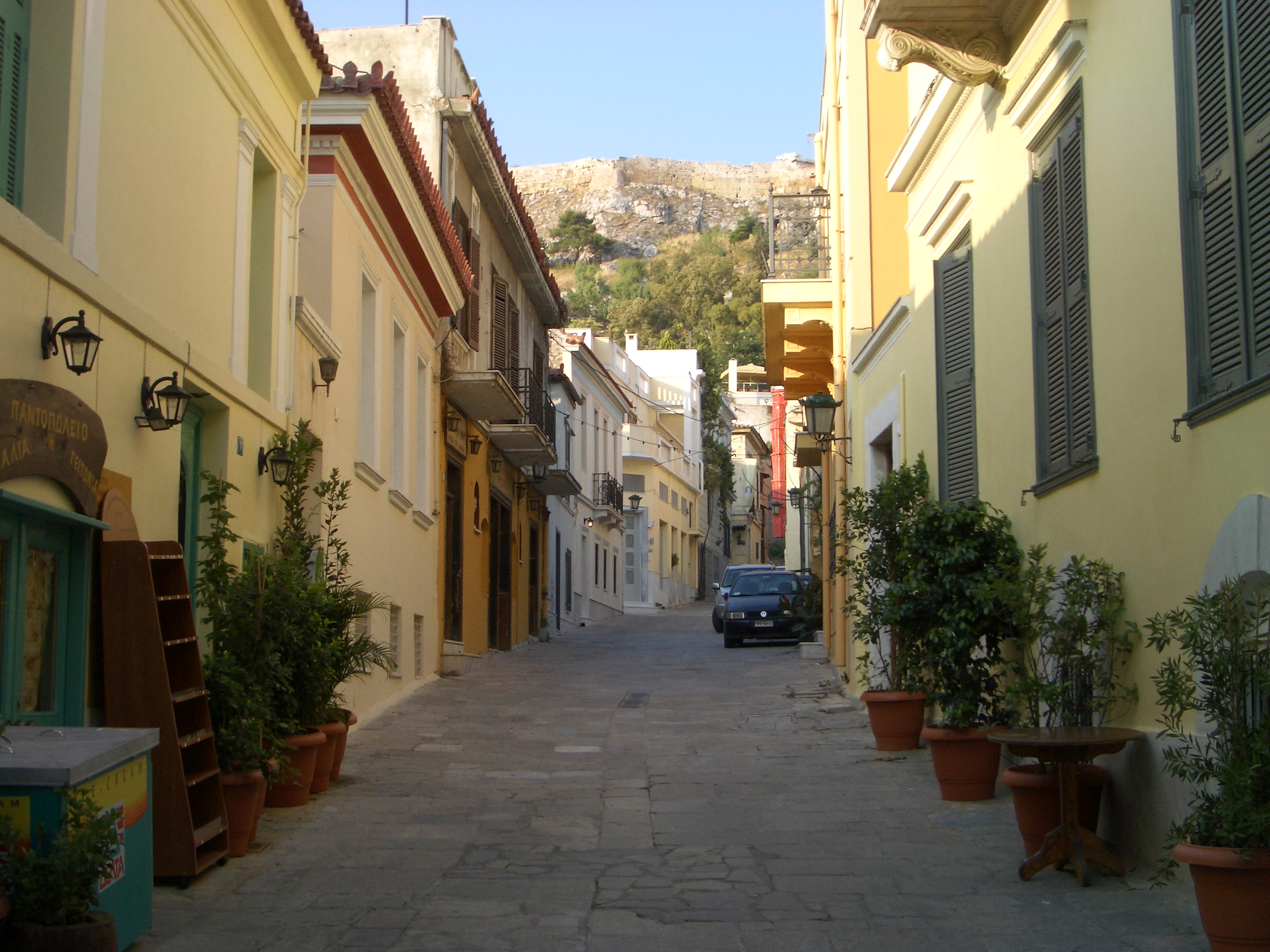 A street in the old traditional and tourist district Plaka, in central Athens. taken in 2007.